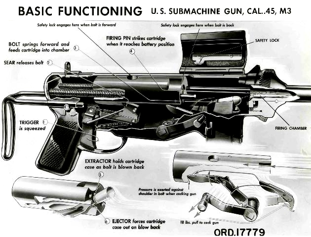 Basic Functioning Illustration of M3 Submachine gun